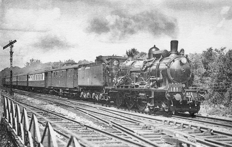 Train "L'oiseau bleu" hauled by the locomotive Nord 2.673.